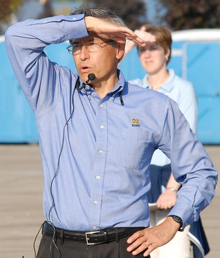 Dr. Kenneth Dye supervising rehearsal on the practice field on the campus of the University of Notre Dame. Dr. Dye is an experienced college marching band director and clinician and currently serves as the director of bands at the University of Notre Dame, a position he has held since 1997.